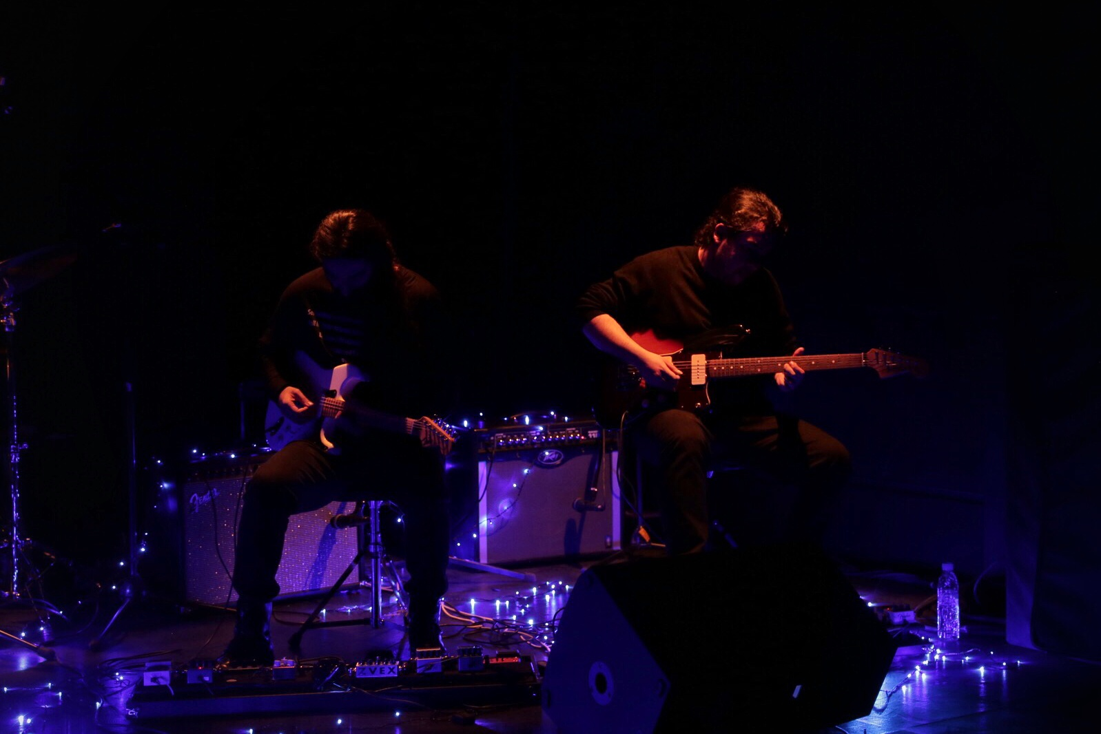 Crows ( Hamed and Masih ) Live